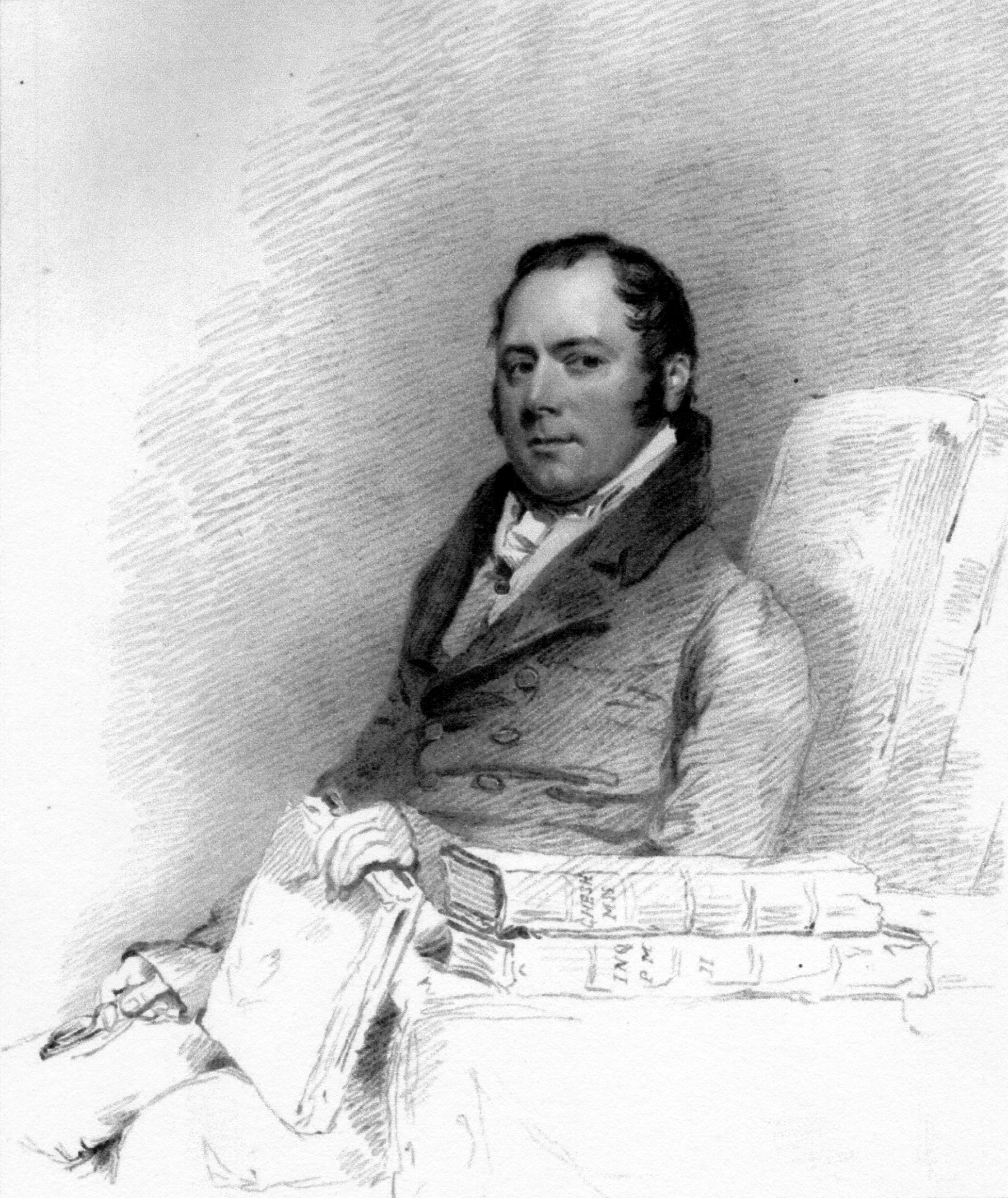 Drawing by I. Jackson